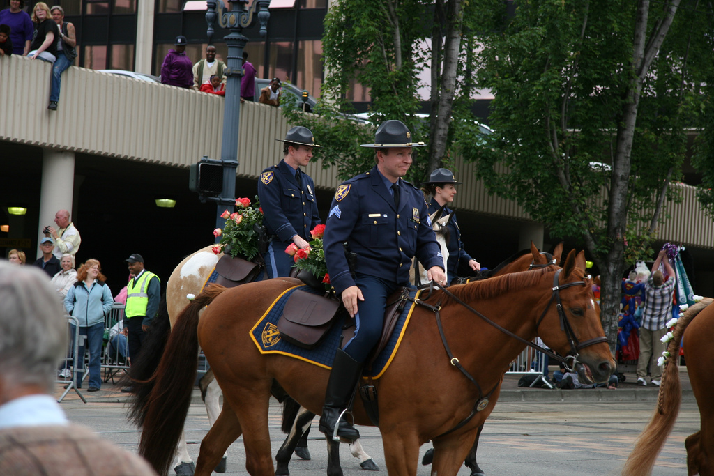 Mounted law enforcement